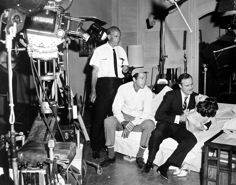 L. to R. : Clifford Stine (cinematographer), George Englund (director-producer), Marlon Brando & Sandra Church on the set of The Ugly American - publicity still